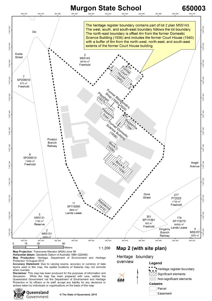 650003 - Murgon State School - boundary map 2 (2015)